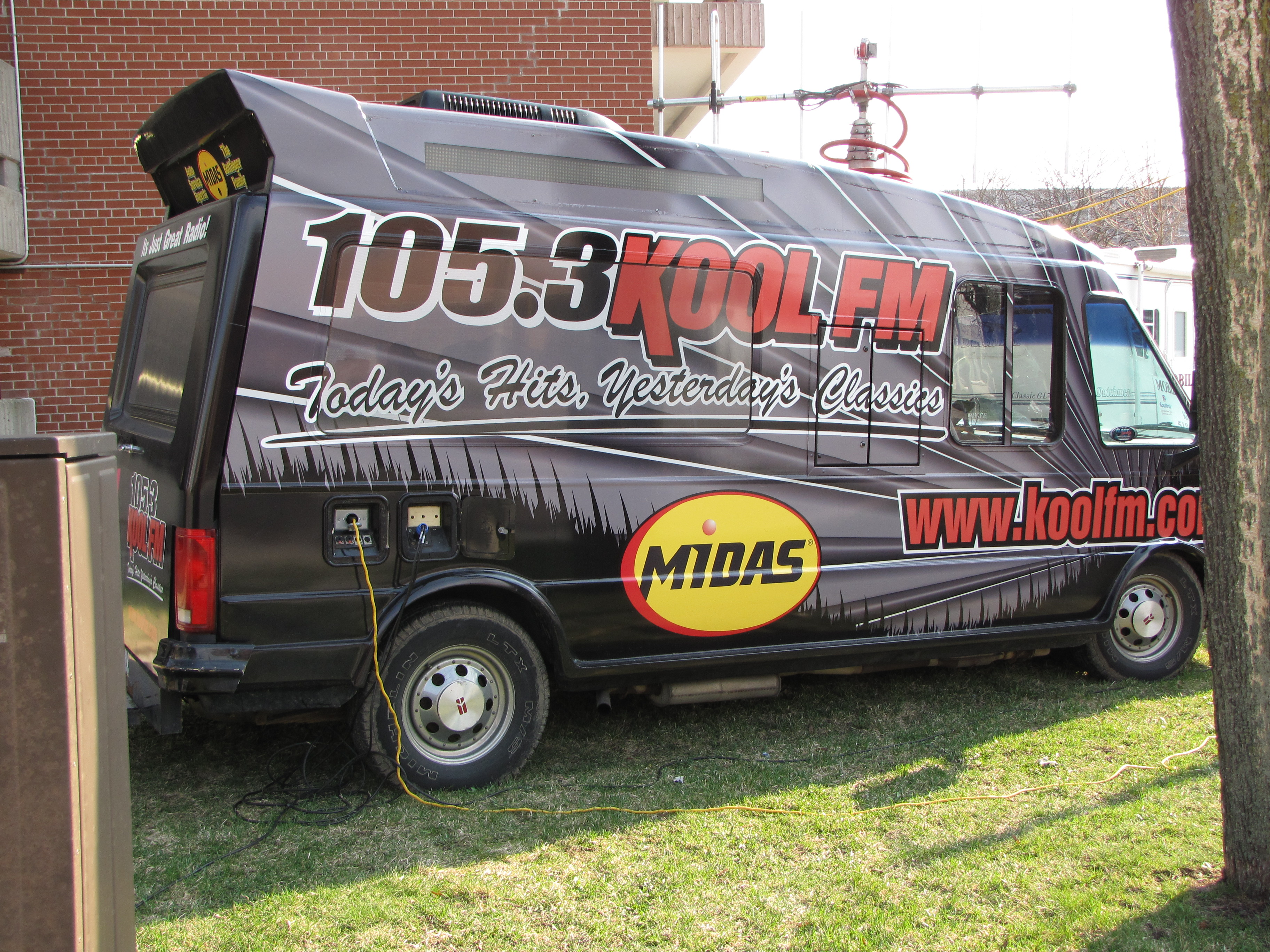 Remote broadcasting truck for the radio station CFCA-FM (branded as 105.3 Kool FM), doing their annual "Poster Boy campaign"